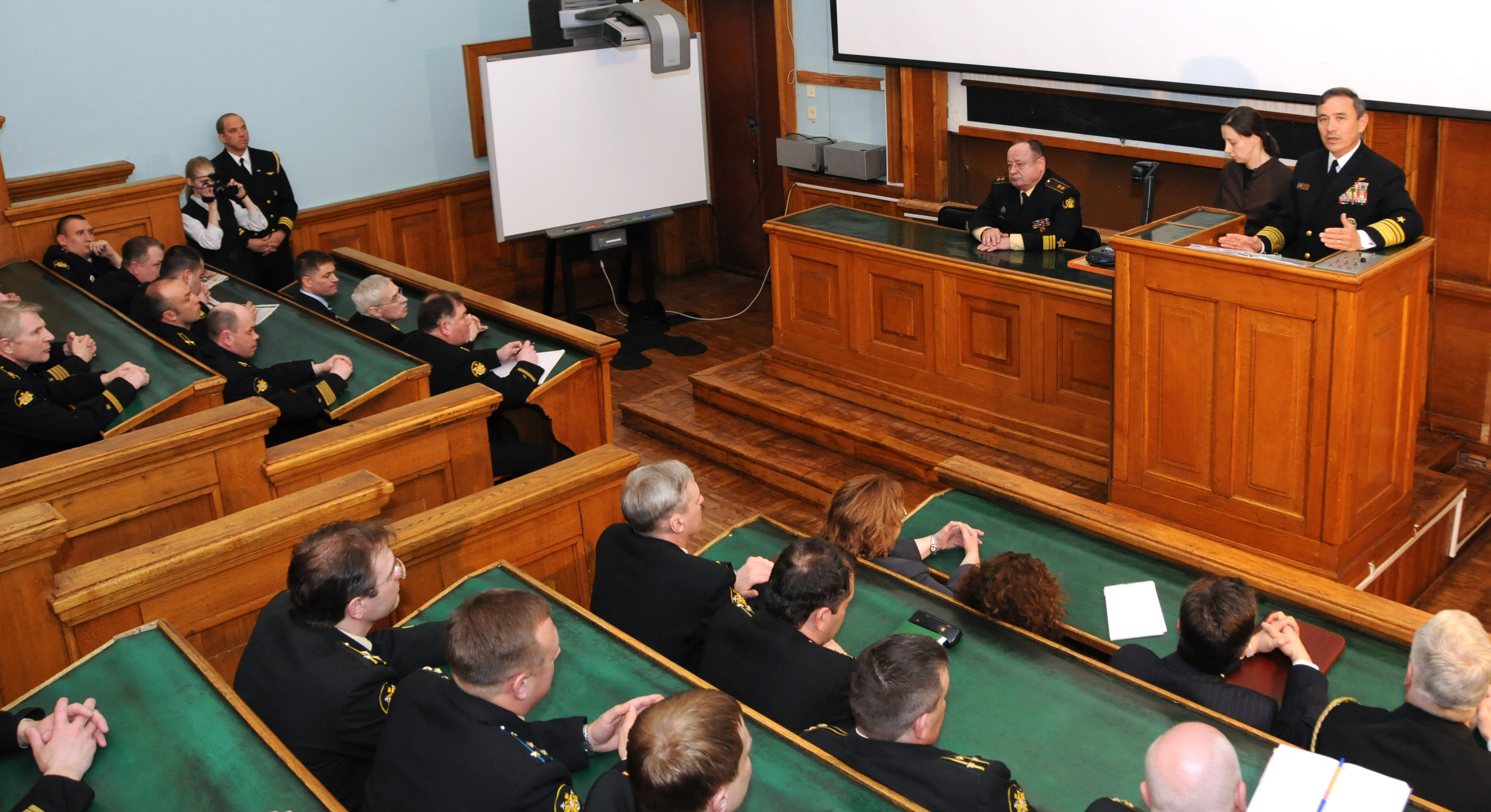 ST. PETERSBURG, Russia (May 7, 2010) Vice Adm. Harry B. Harris Jr., commander of U.S. 6th Fleet, gives a speech at the Kuznetsov Naval Academy. Harris is in St. Petersburg to participate in the commemoration of the 65th anniversary of Victory in Europe Day. (U.S. Navy photo by Mass Communication Specialist 2nd Class William Pittman/Released)